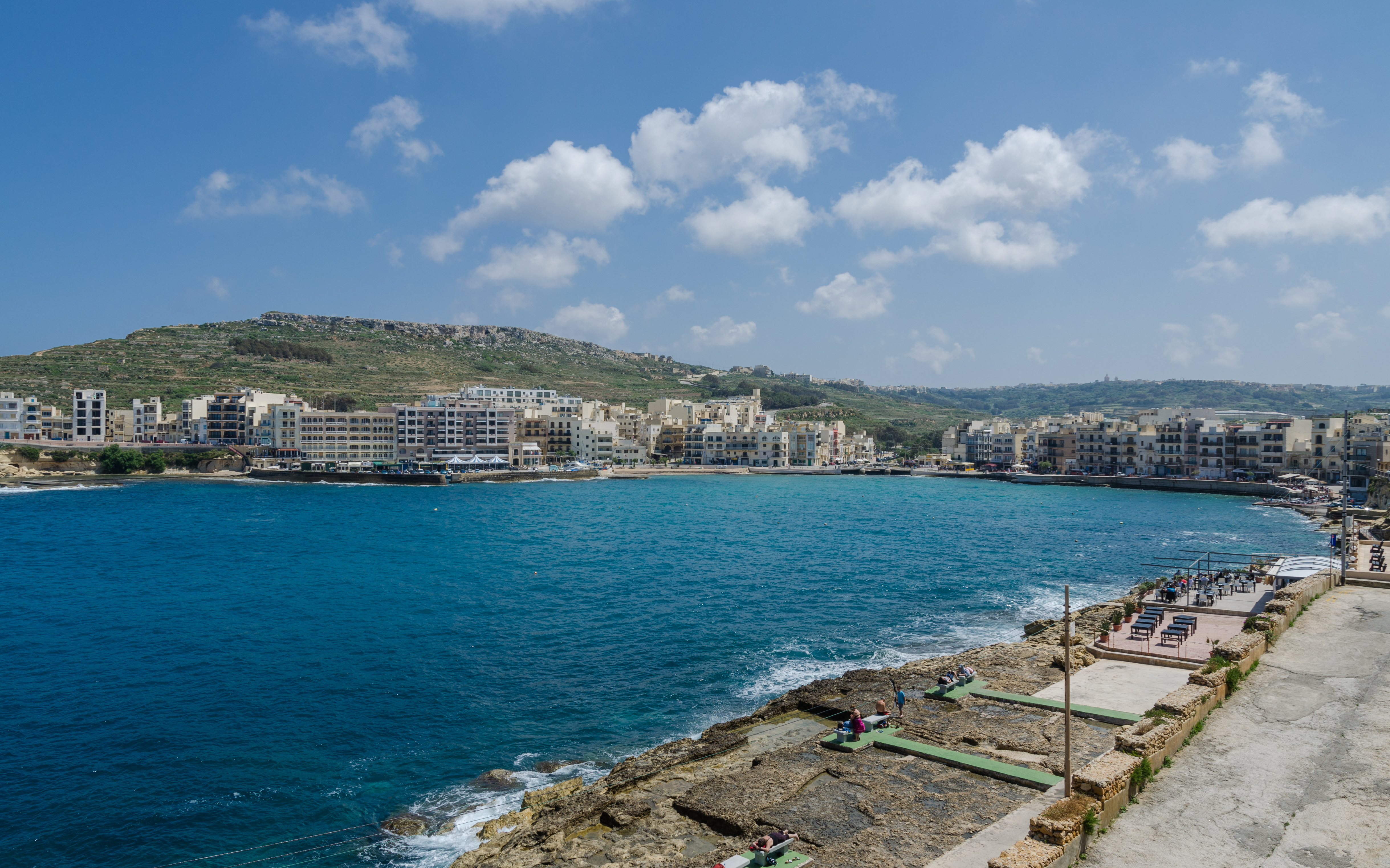 A view of Marsalforn, as seen from Triq Santa Marija